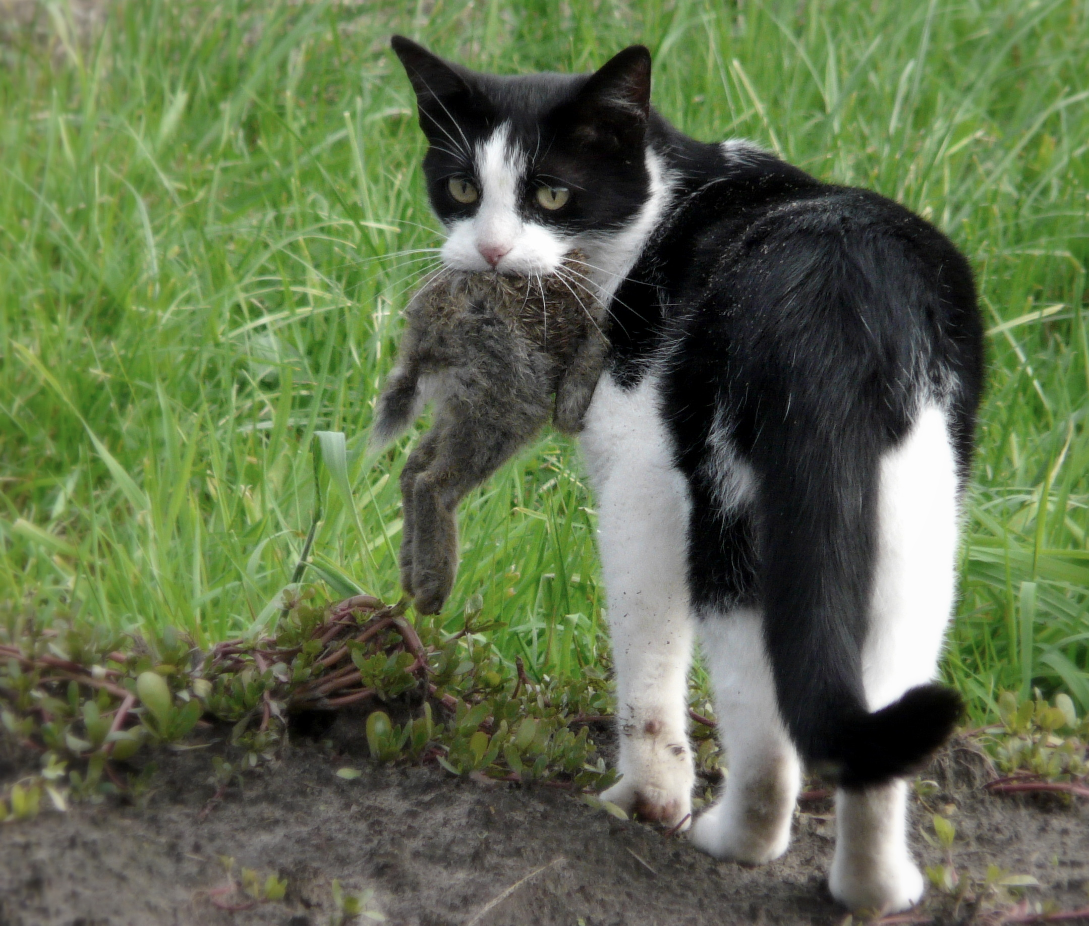 Our hunting tomcat with prey